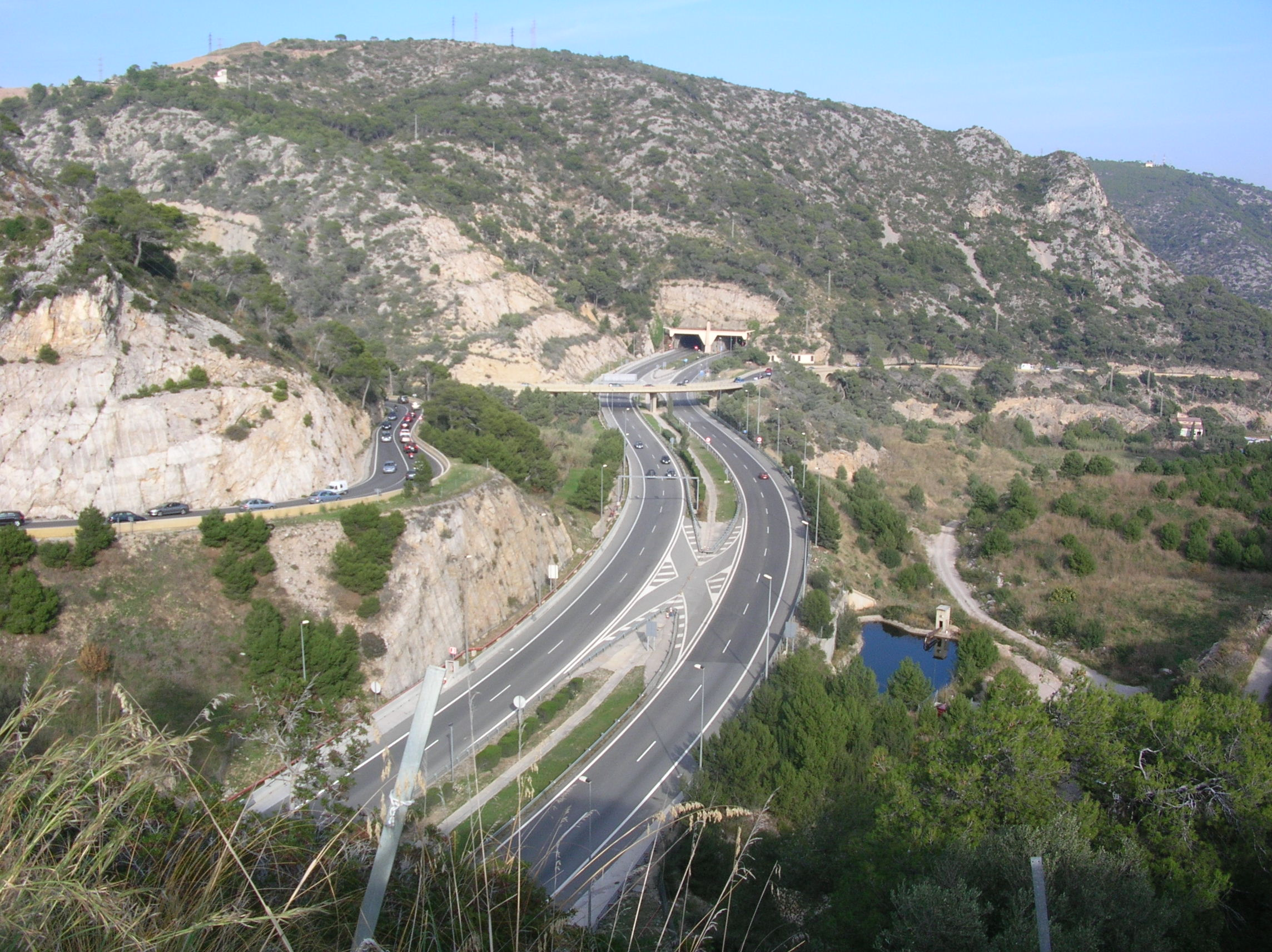 Catalan Toll Motorway C-32 on the tunnels area of Garraf, with the C-31 road on the left